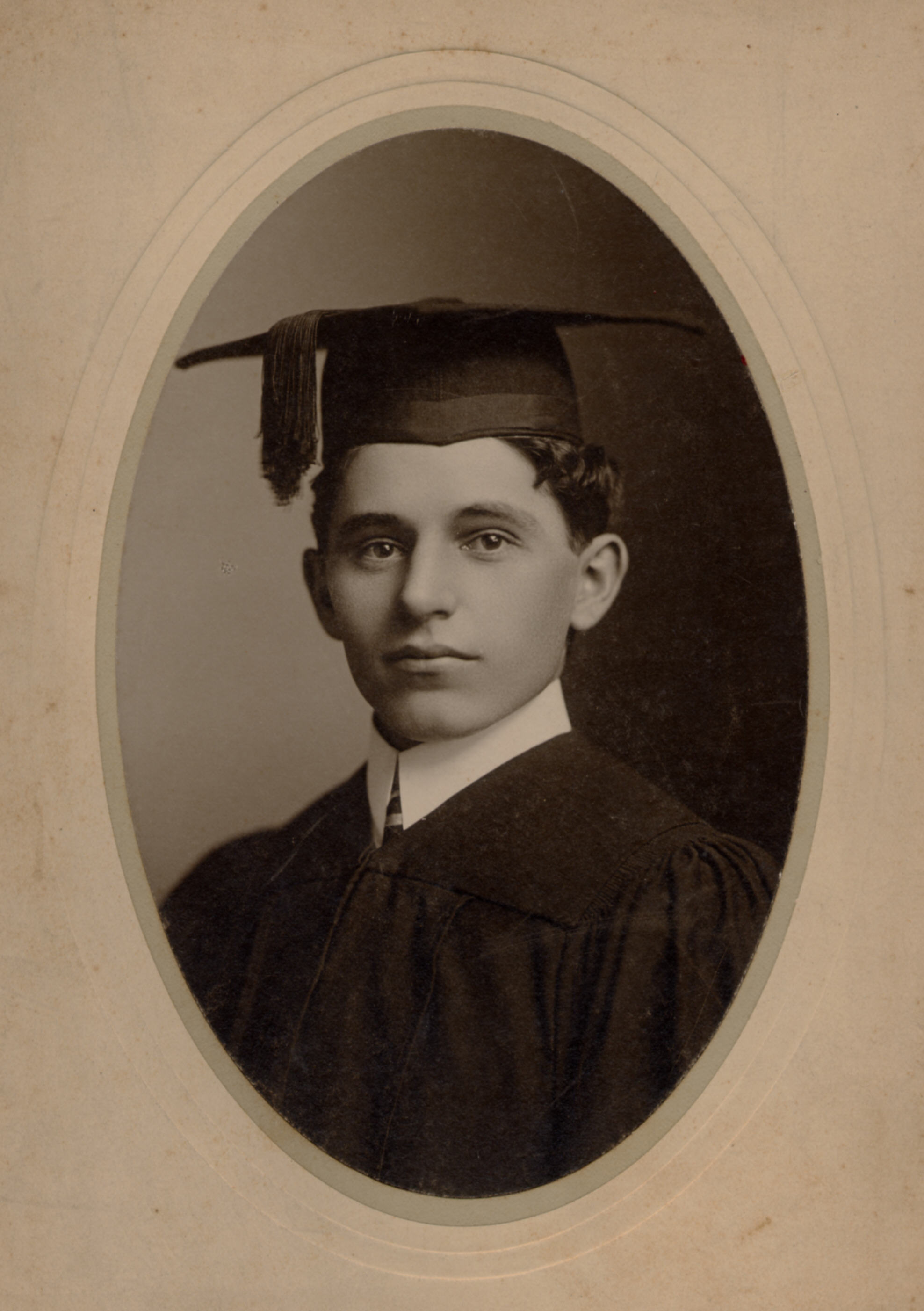 Photo from Vanderbilt University Medical School Yearbook